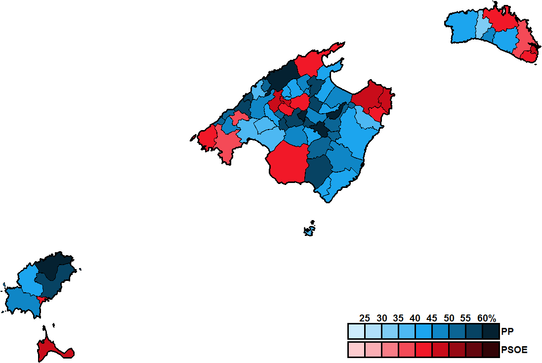 Most-voted party in Balearic Islands municipalities, showing vote share obtained, in the Spanish general election, 1989.